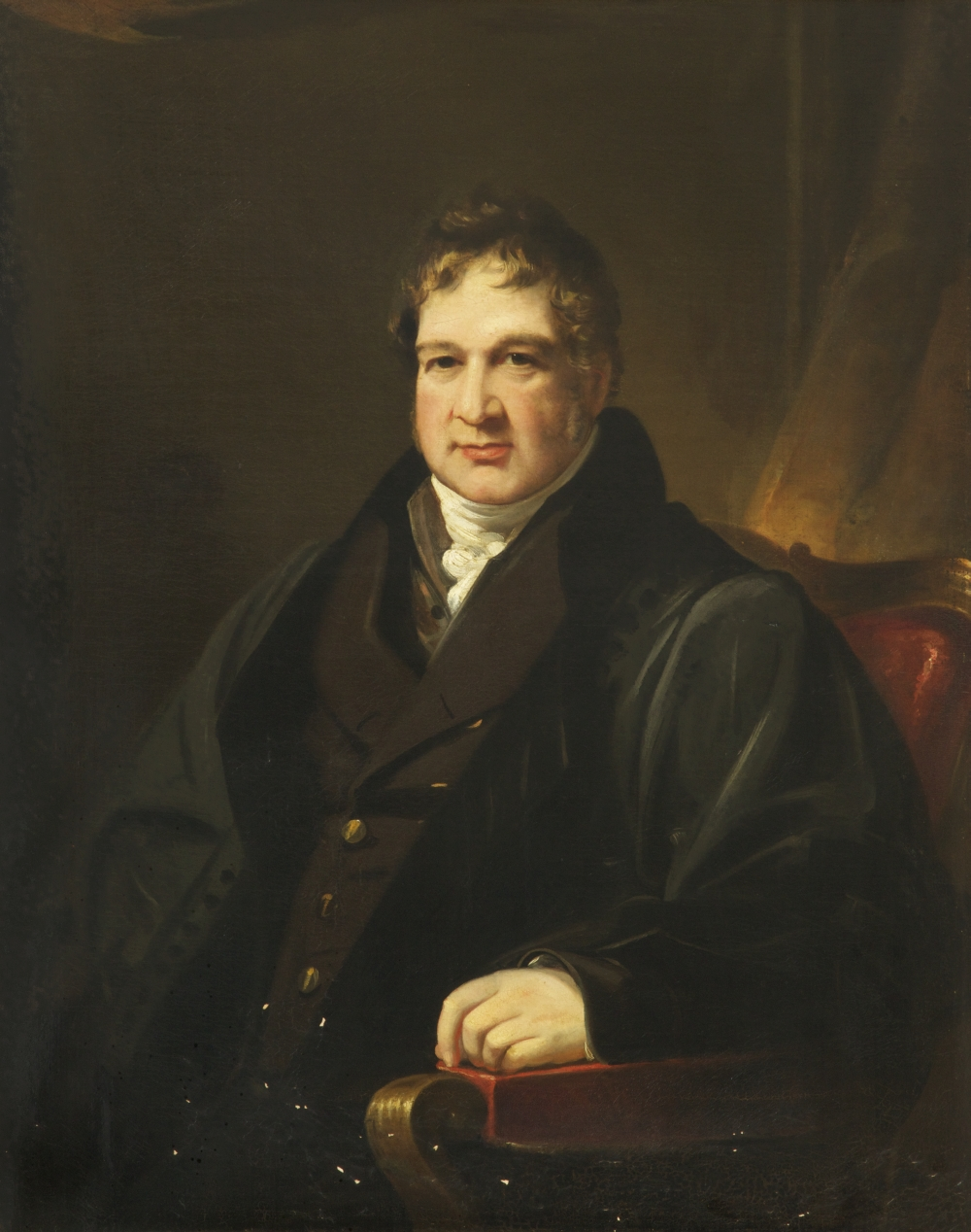 Lonsdale, James; Thomas Colley Porter (1780-1833); Walker Art Gallery